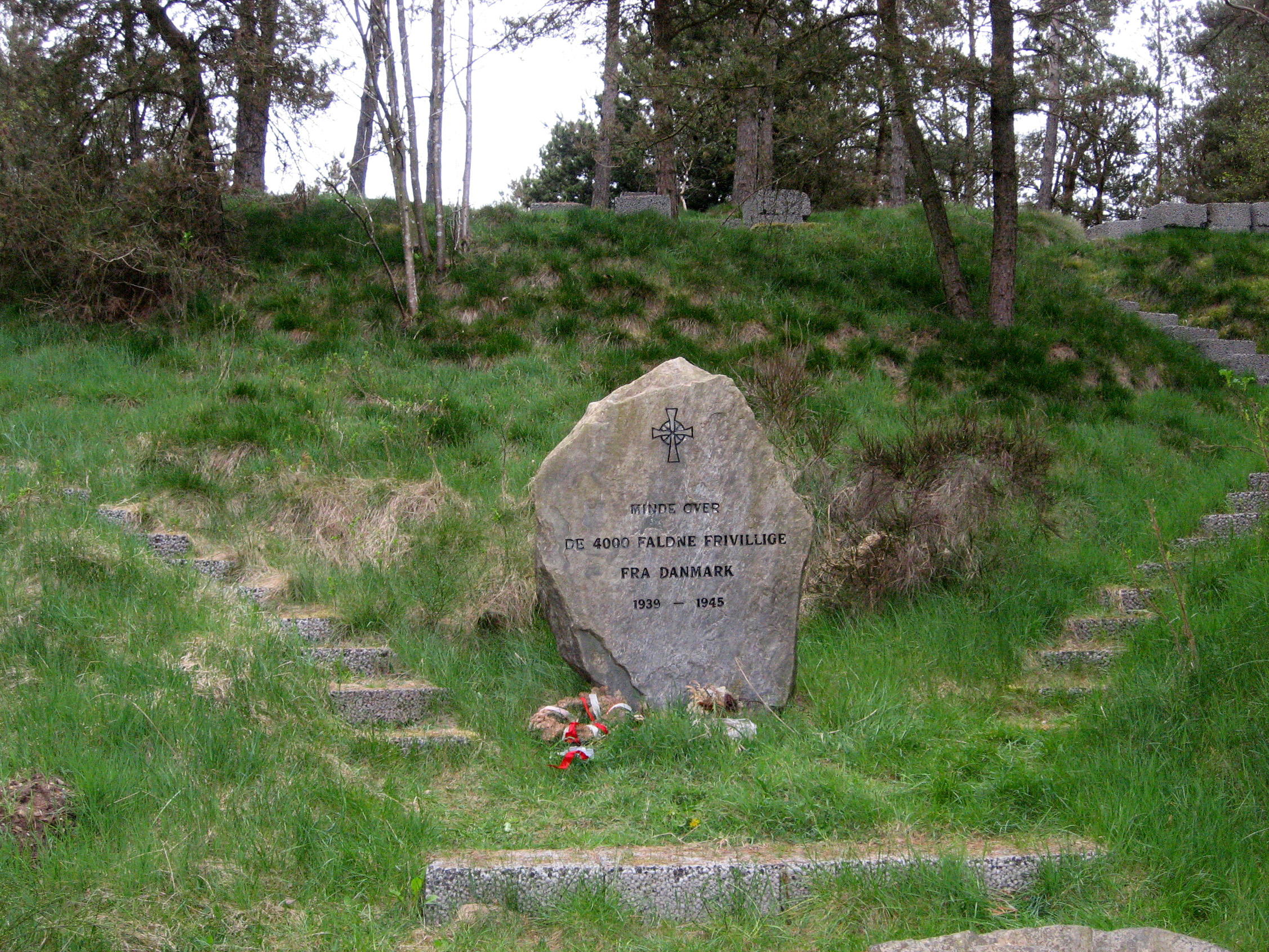 Fællesskabets Mindelund af 1969, a memorial for Danes serving in the German army at the Eastern Front during World War II. It's located at Kongensbro near Silkeborg in Jutland.